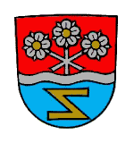 Coat of Arms of Geroldshausen